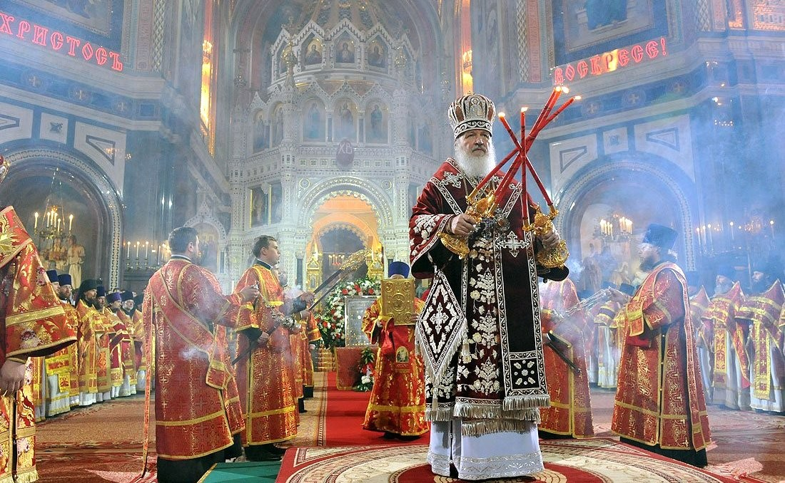 Patriarcha Kirill of Moscow and all Russia during Easter service at Christ the Savior cathedral in Moscow